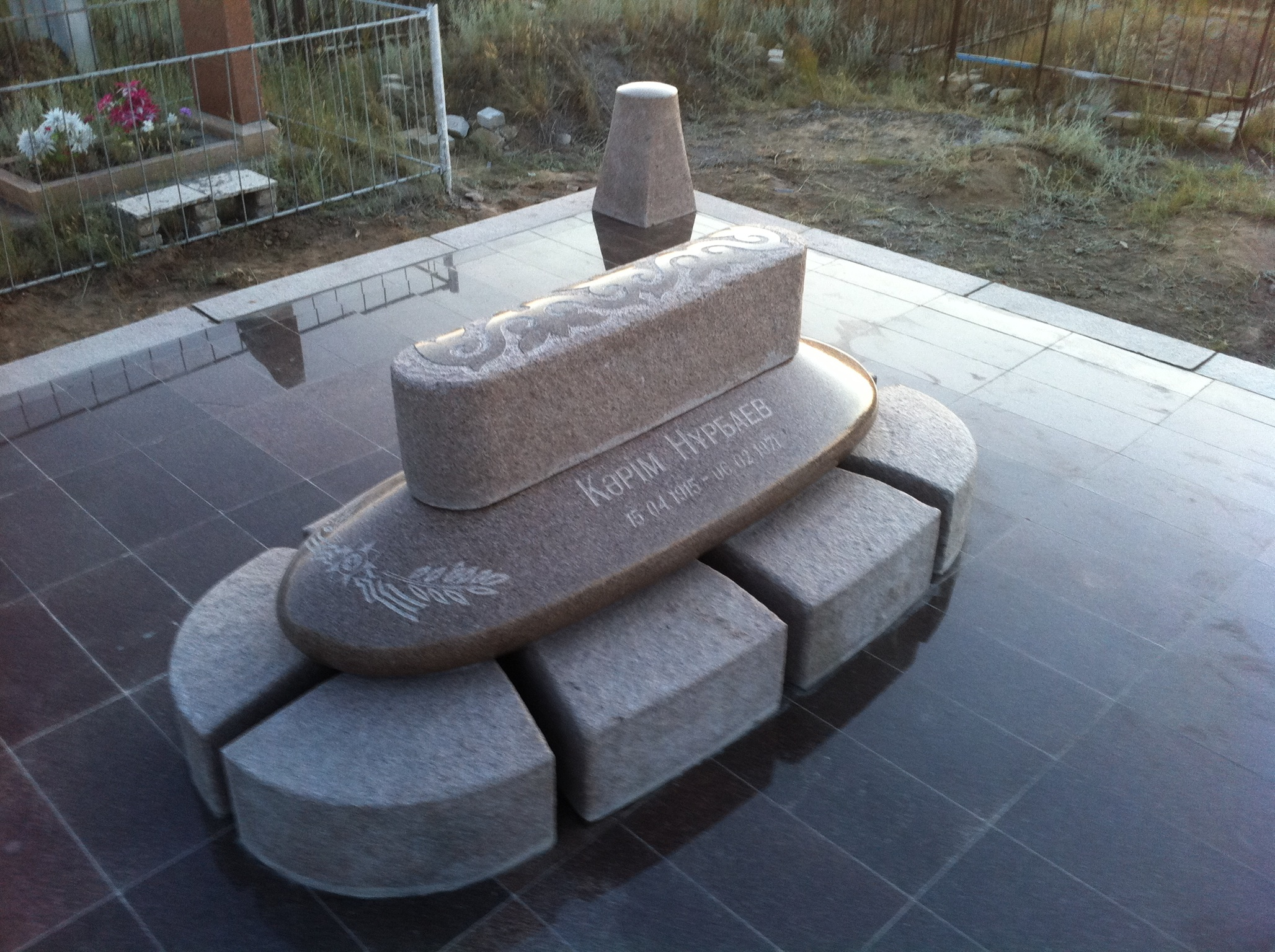 Надгробный мемориал Кариму Нурбаеву